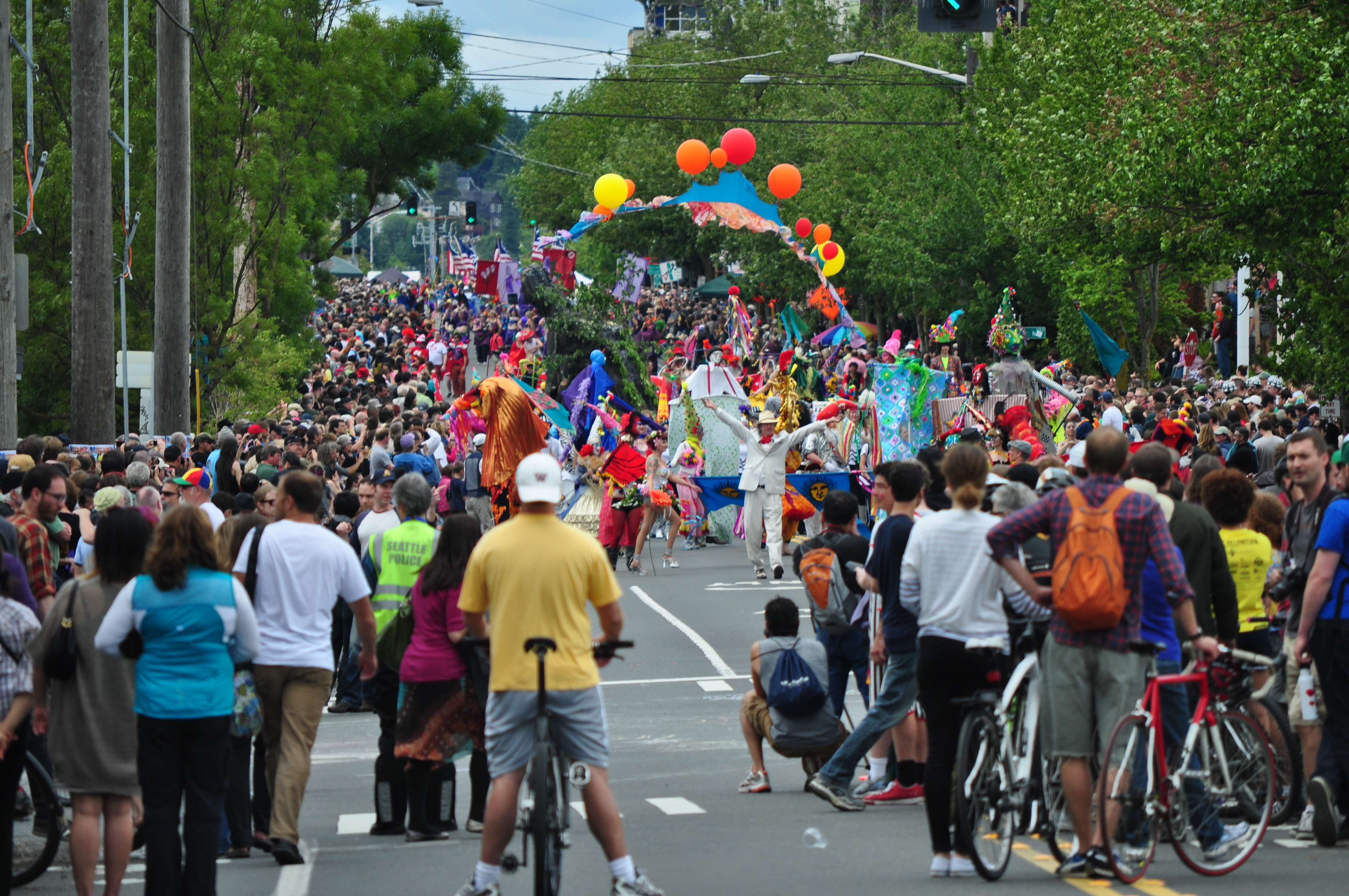 2012 Solstice Parade, Fremont, Seattle, Washington approaches Stone Way N.